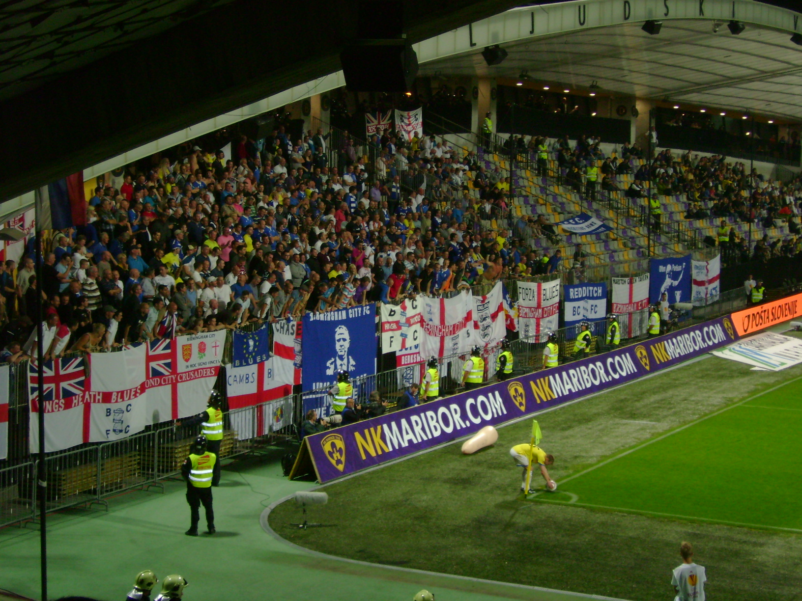 Birmingham City F.C. supporters during the UEFA Europa League match vs NK Maribor at Ljudski vrt stadium in Maribor, Slovenia.